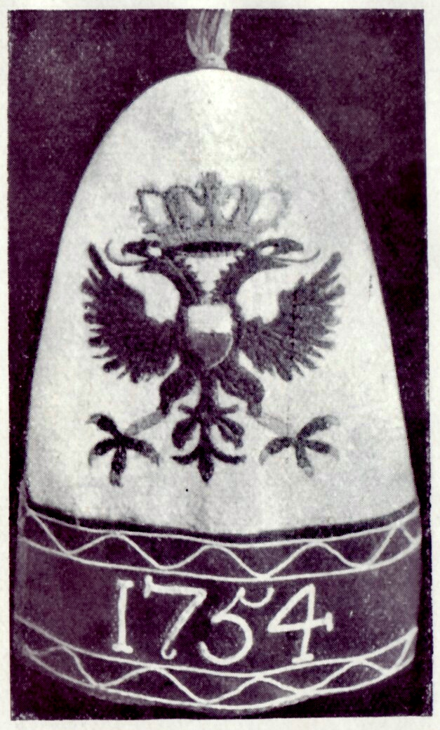 Mitre cap of the bailiffs of the Free City of Lübeck, 1754